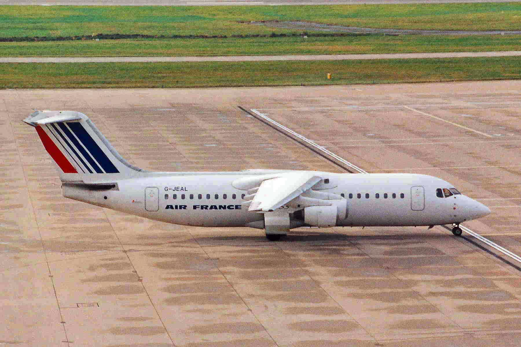 Air France by Jersey European Airways